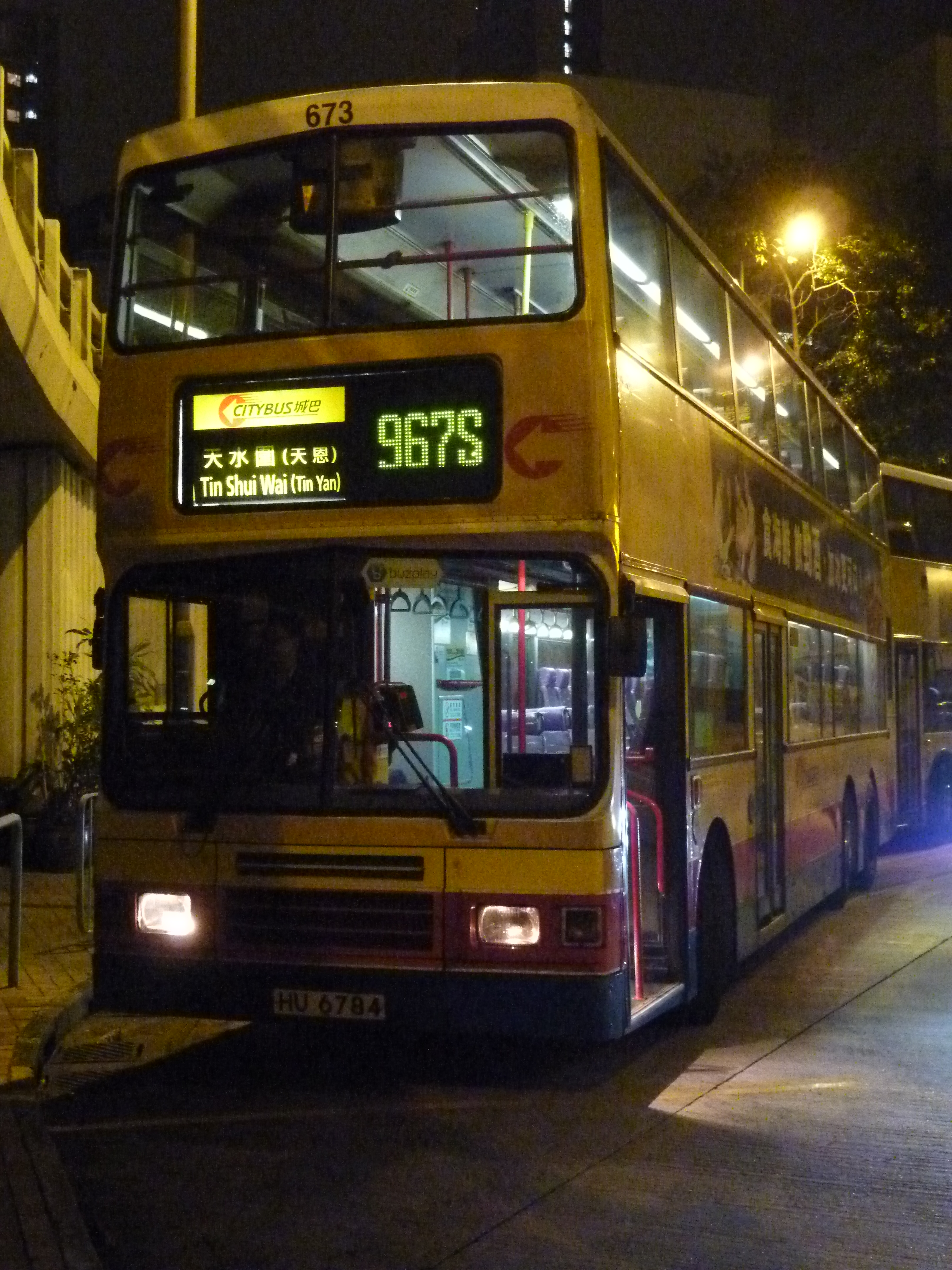 Citybus Route 967S (Causeway Bay (Moreton Terrace) Bus Terminus) 中文（香港）: 城巴967S線 (銅鑼灣 (摩頓台) 巴士總站)